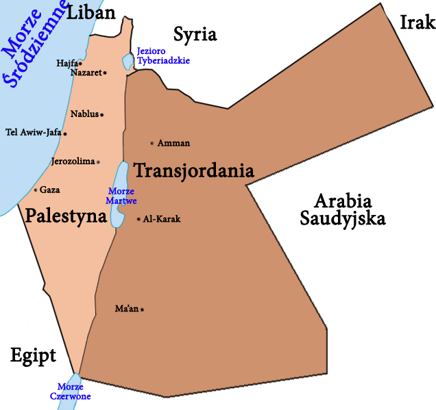 PNG version of File:PalestineAndTransjordan-HE.jpg.